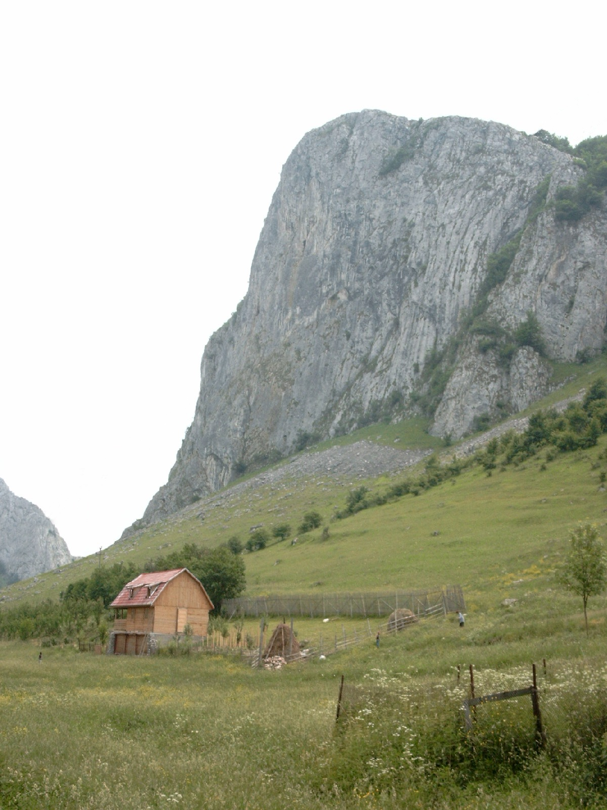 View of Trascau Mountains, Alba County, Romania.